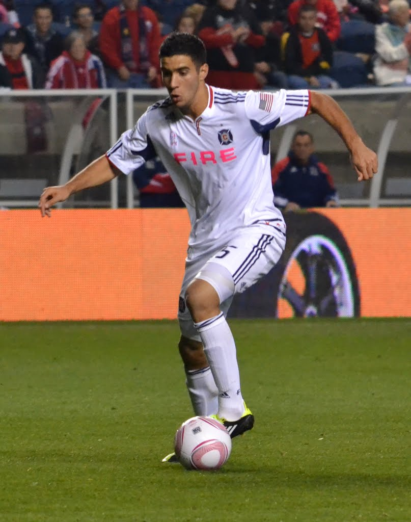 Courtesy of